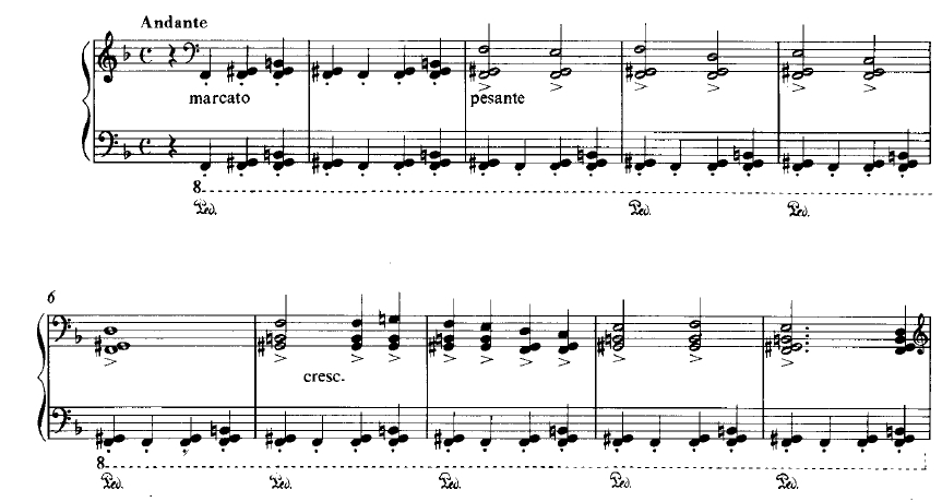 Openings bars from totentanz piano solo version